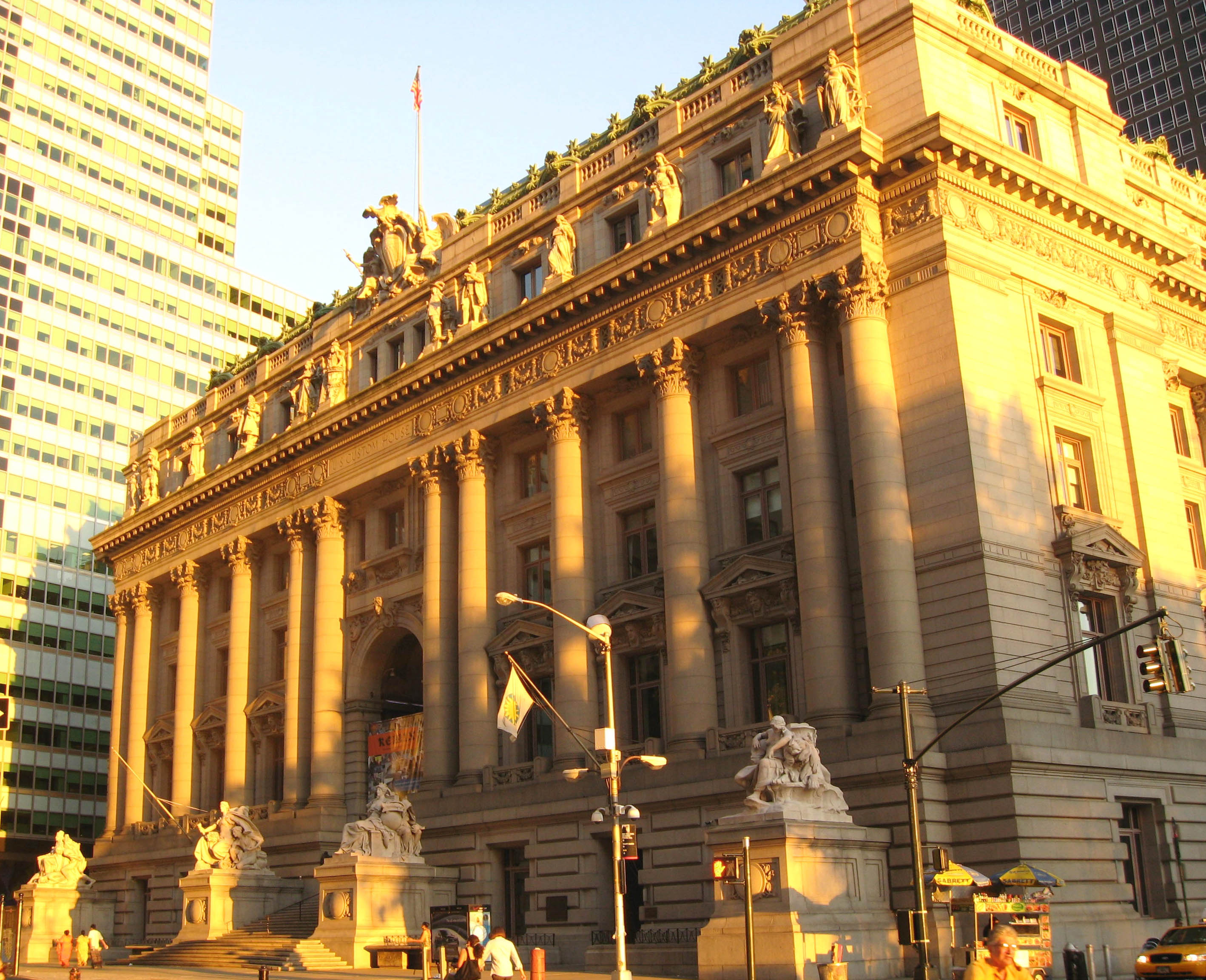 Looking southeast at Alexander Hamilton U.S. Custom House near dusk on a sunny day.